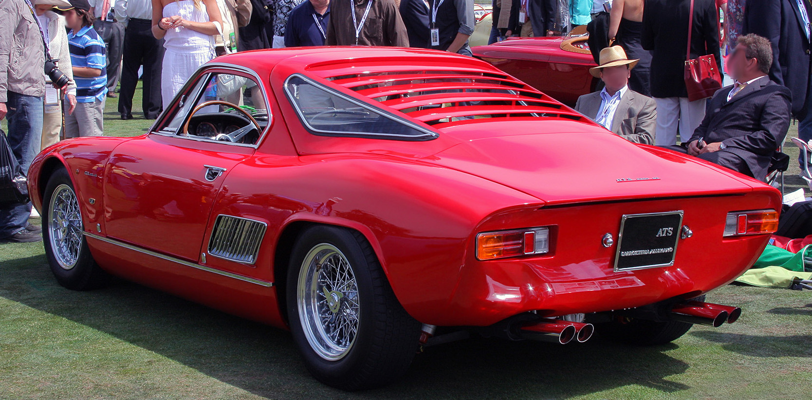 ATS 2500 GTS 1963 at Pebble Beach Concours d'Elegance, Aug 16, 2009